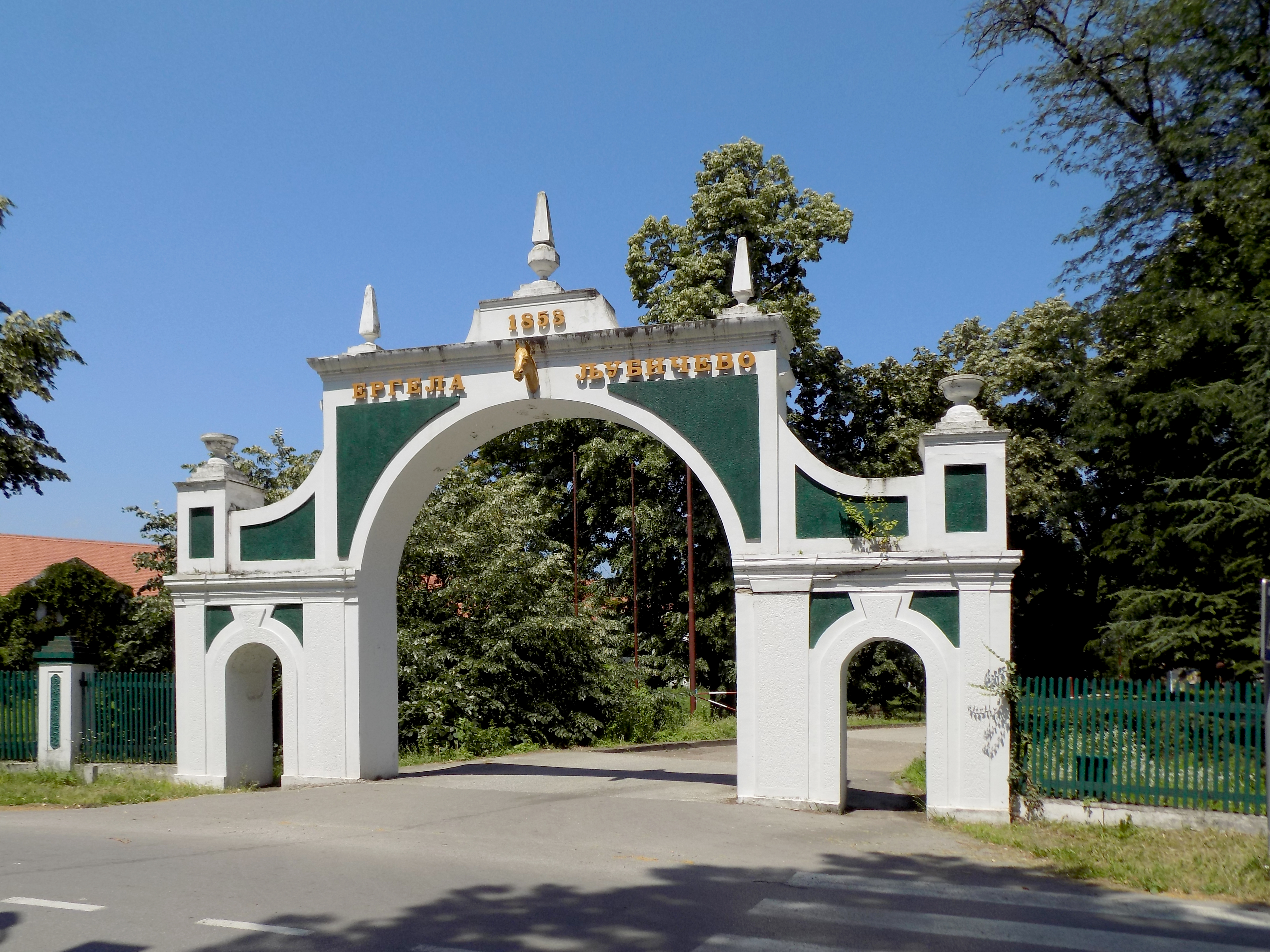 Ljubičevo Stable - main gate